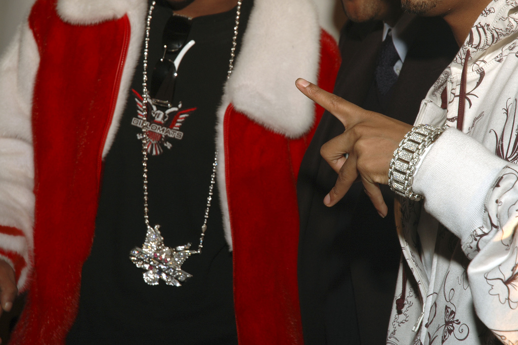 Bling-bling hip hop jewelry from flickr photo by Jon Feinstein